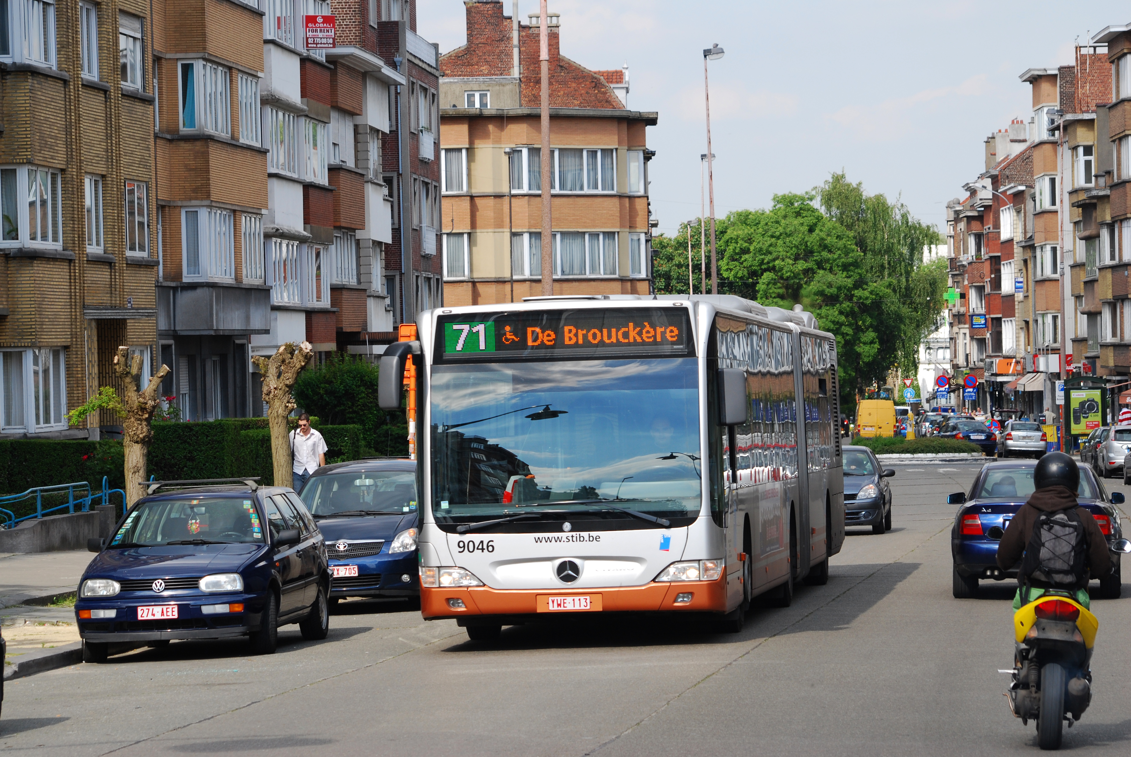 Bus STIB